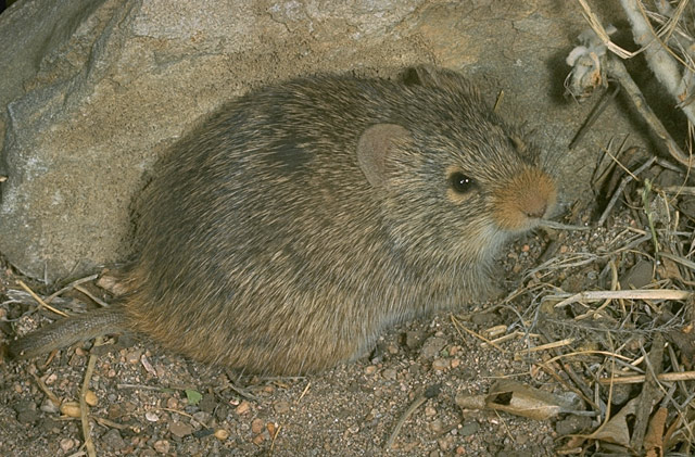 picture of a Sigmodon ochrognathus (Yellow-nosed Cotton Rat), from the Smithsonian website